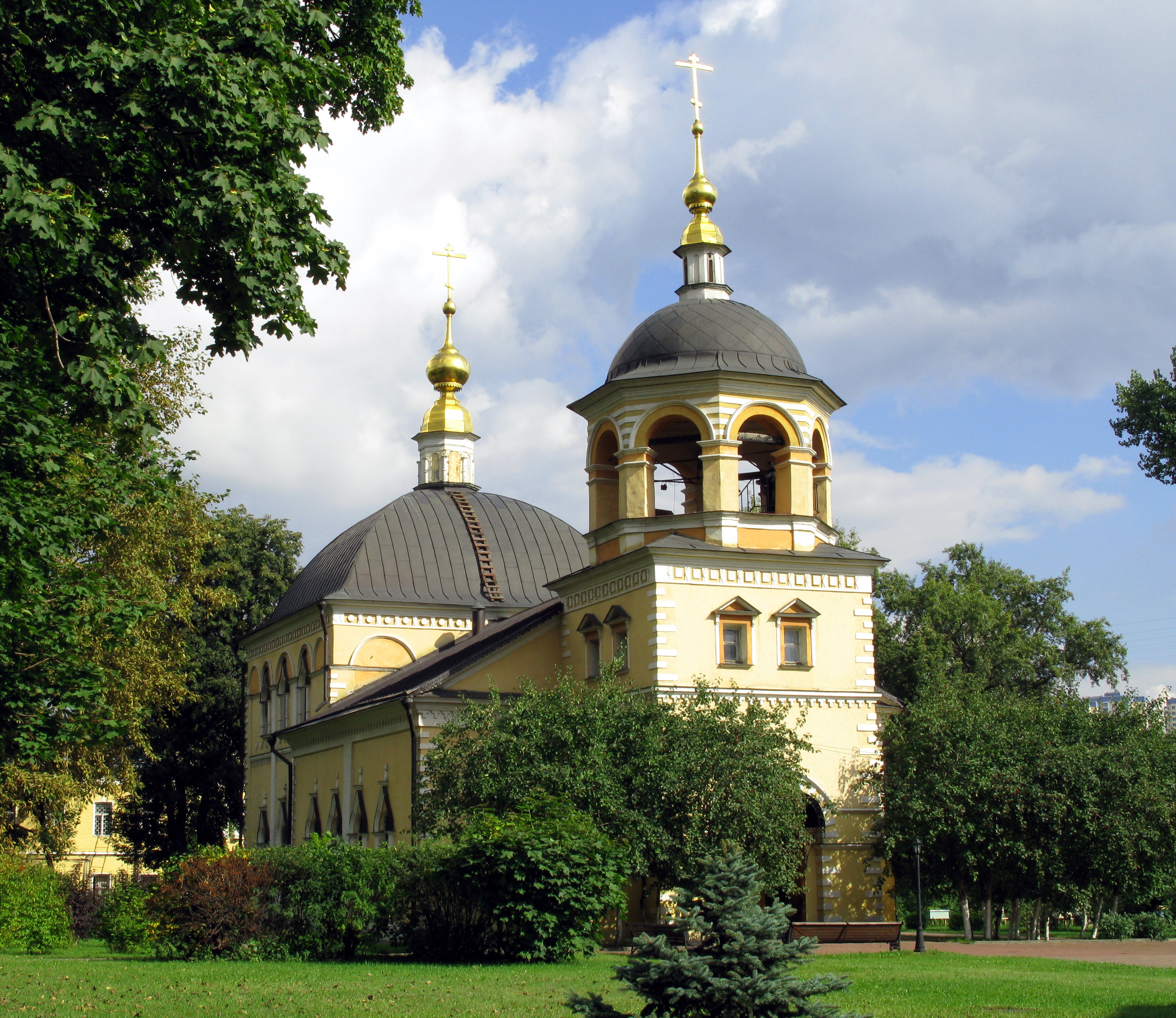 Church of the Exaltation of the Holy Cross in Preobrazhenskoye Cemetery